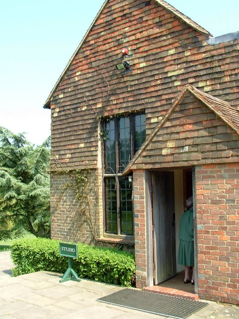 The Studio, Chartwell Winston Churchill did his painting in here.